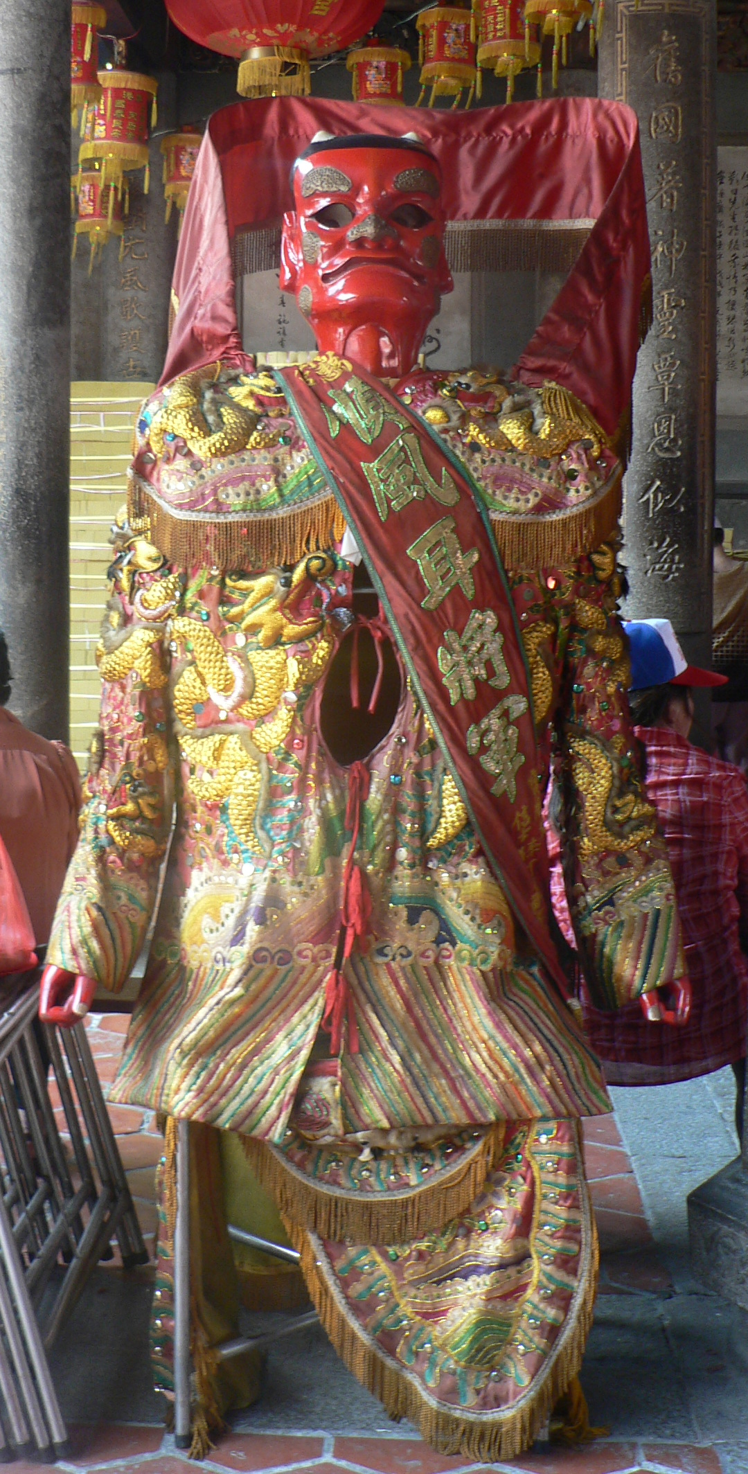 順風耳, the one who hears, helper of Matsu